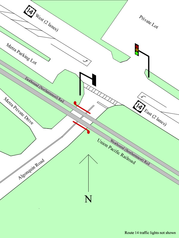 A diagram of the 1995 Fox River Grove accident scene.